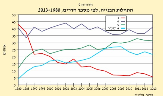 Average construction time per housing unit 1981-2014